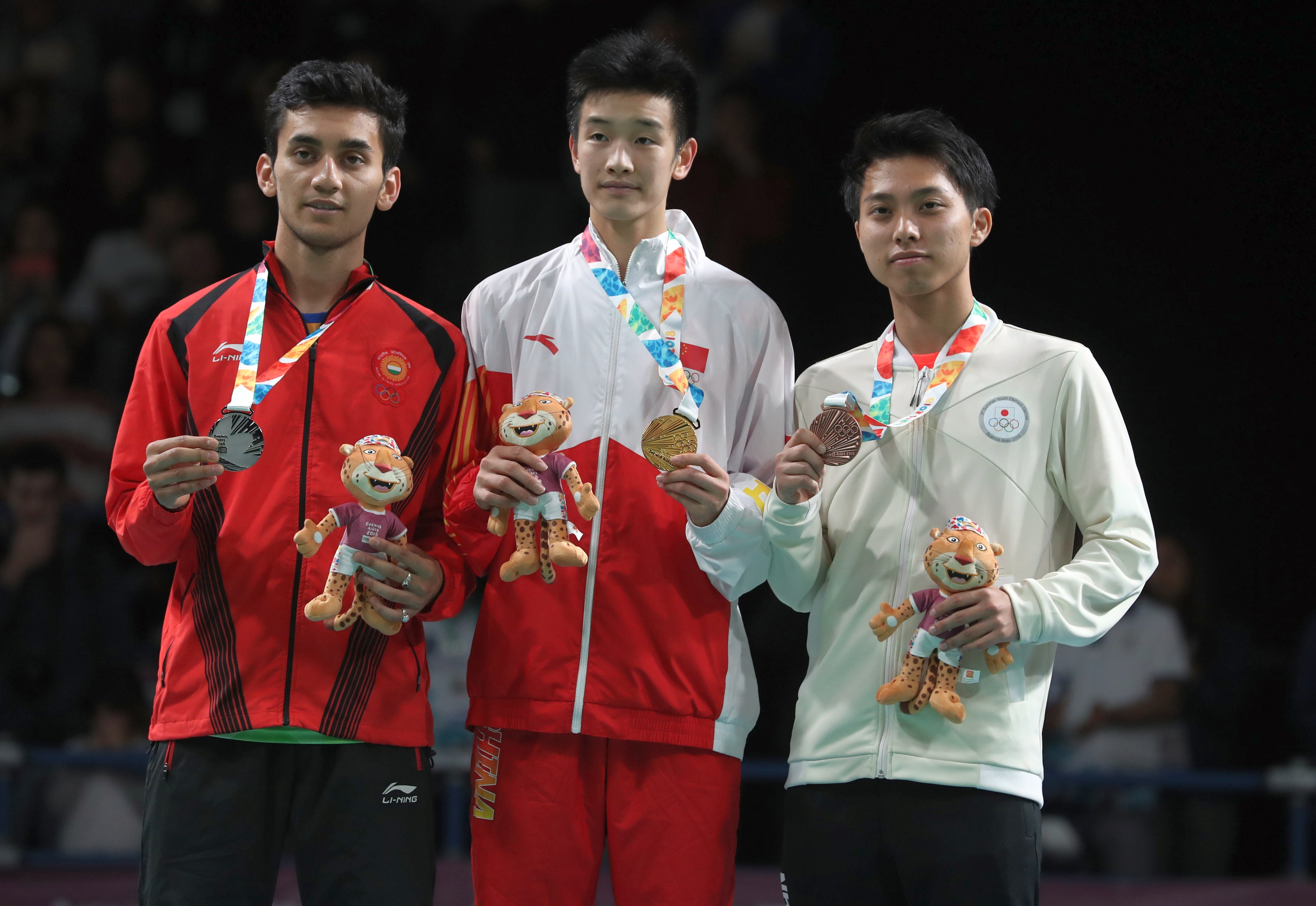 Victory ceremony at the Boys Singles Badminton competition